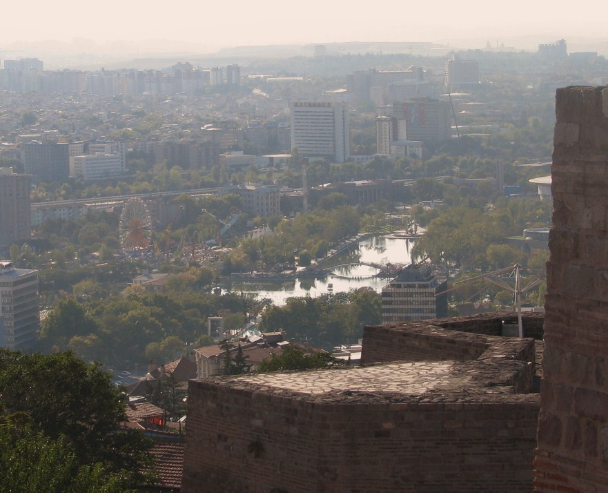 Gençlik Park, Ankara (view from Kale, Ulus)